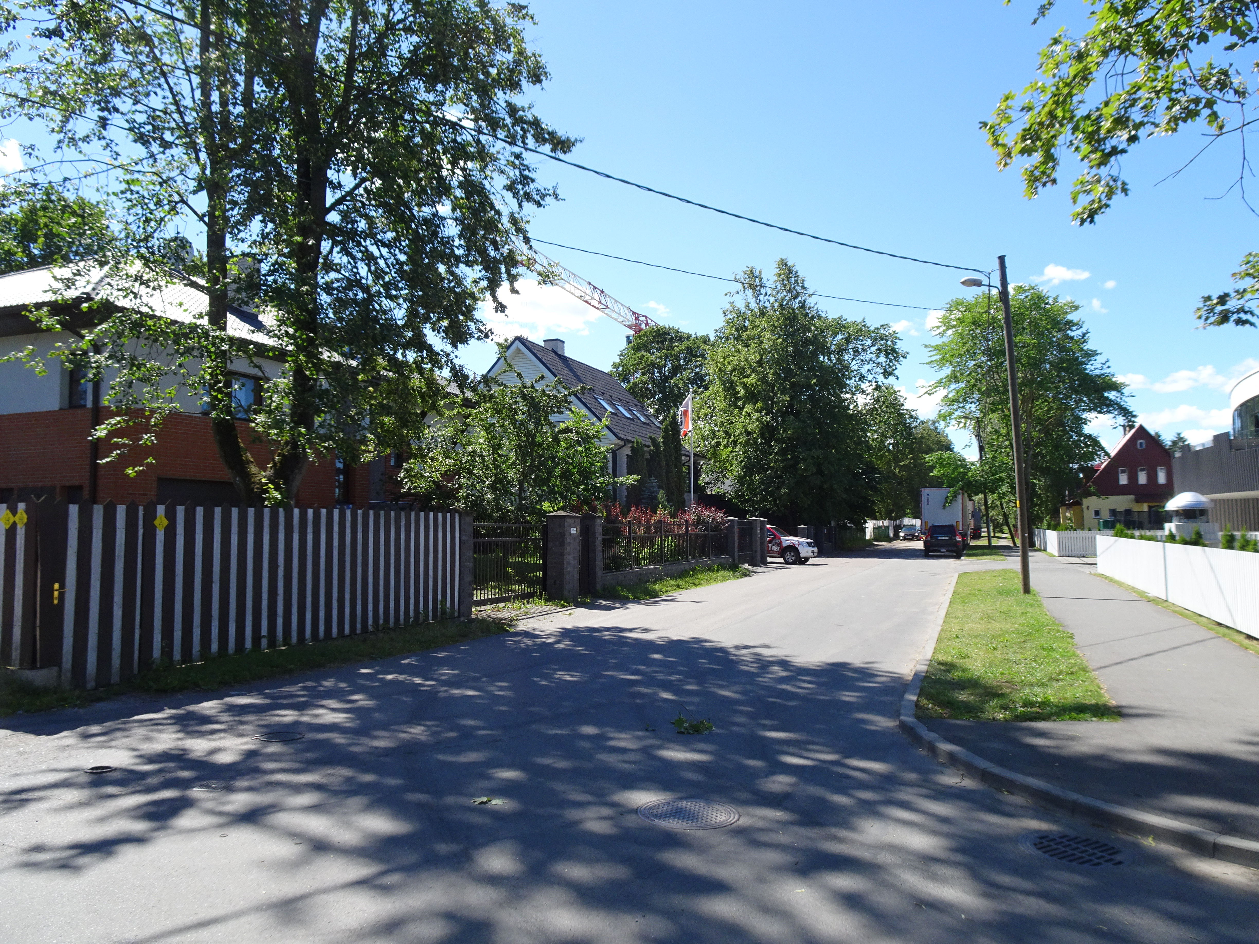 Haraka Street in Tallinn, Estonia